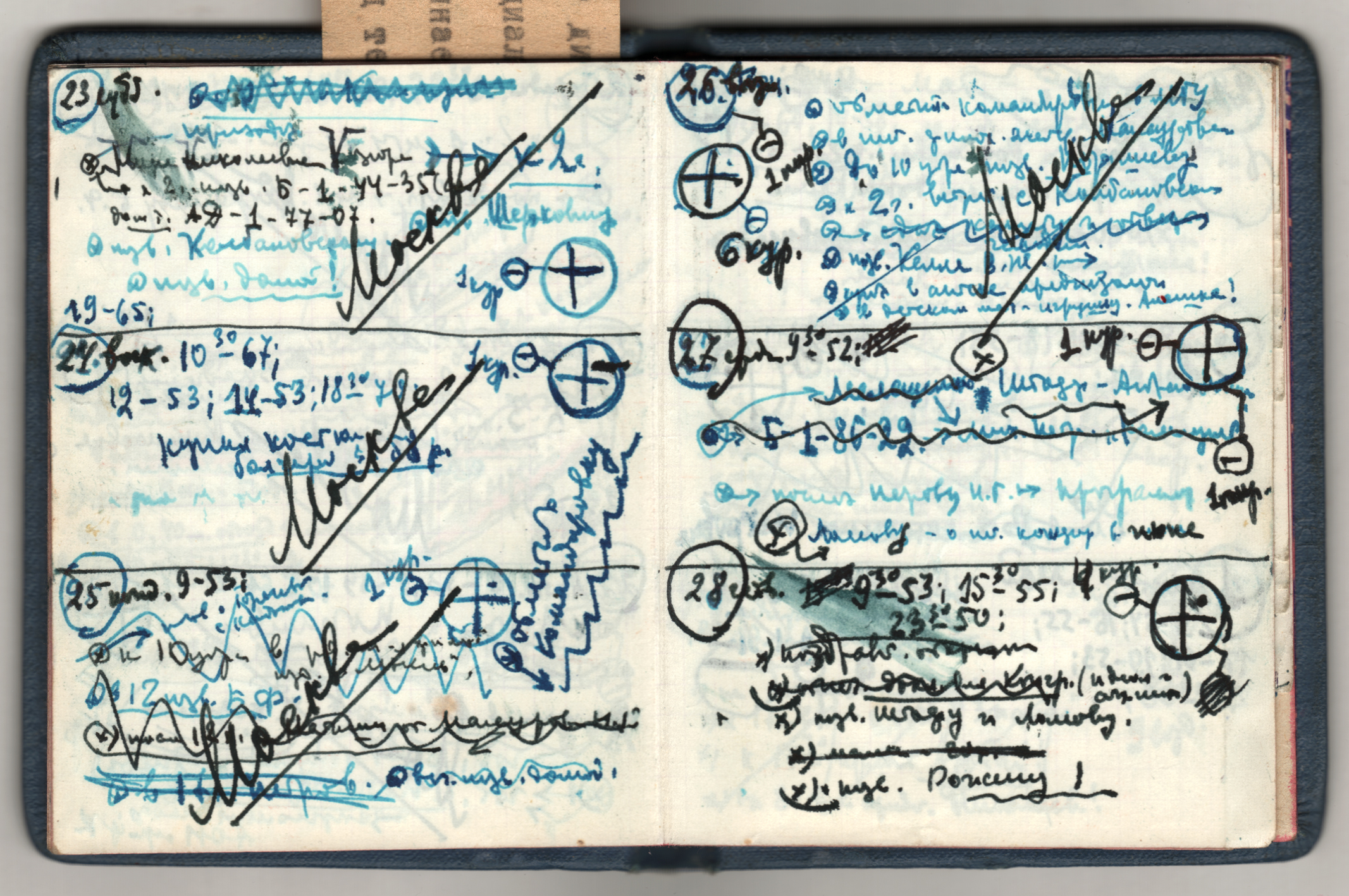 Boris Parygin Notebook spread/ 1966 March-July.